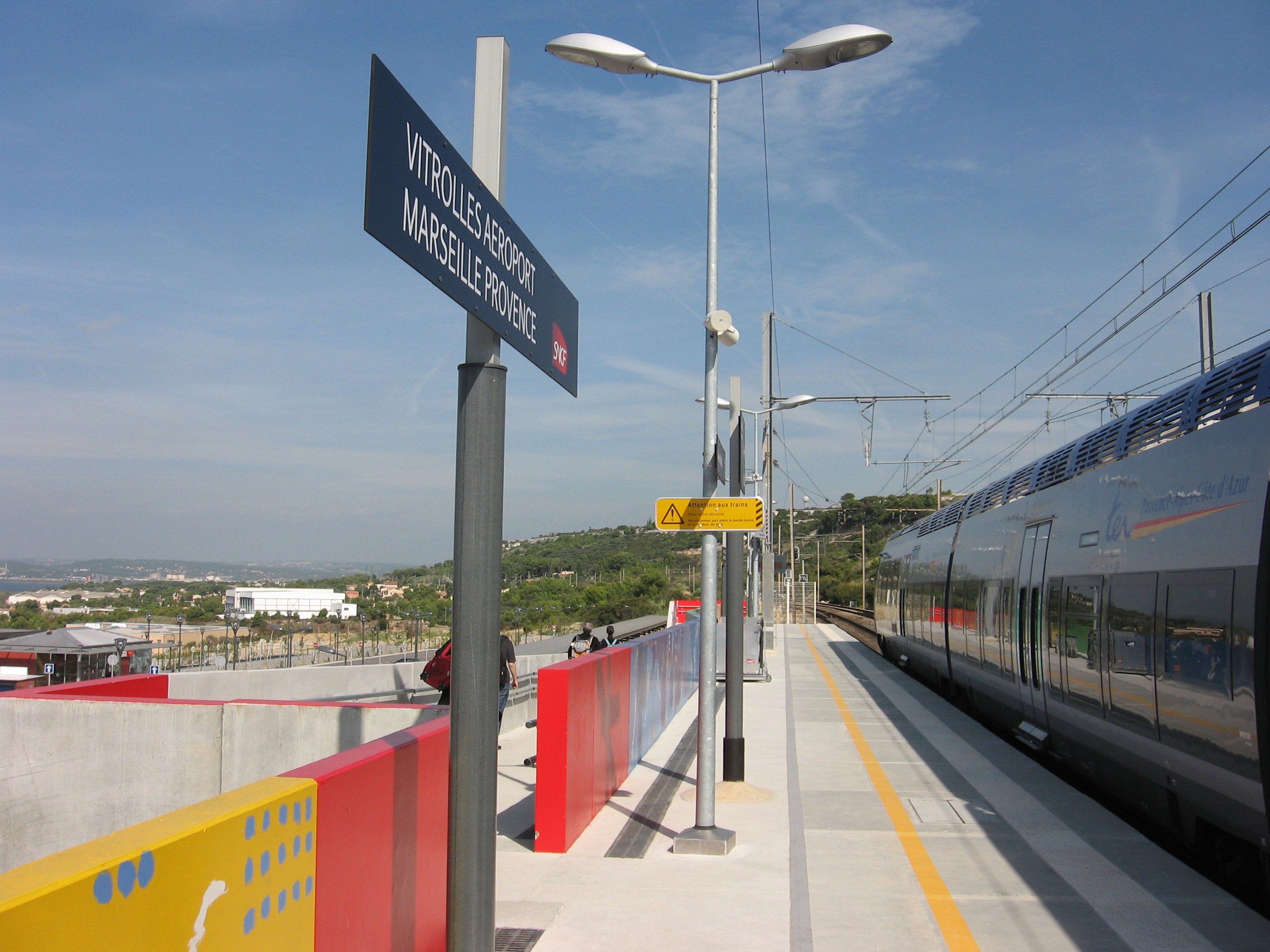 Station Vitrolles Aéroport Marseille Provence